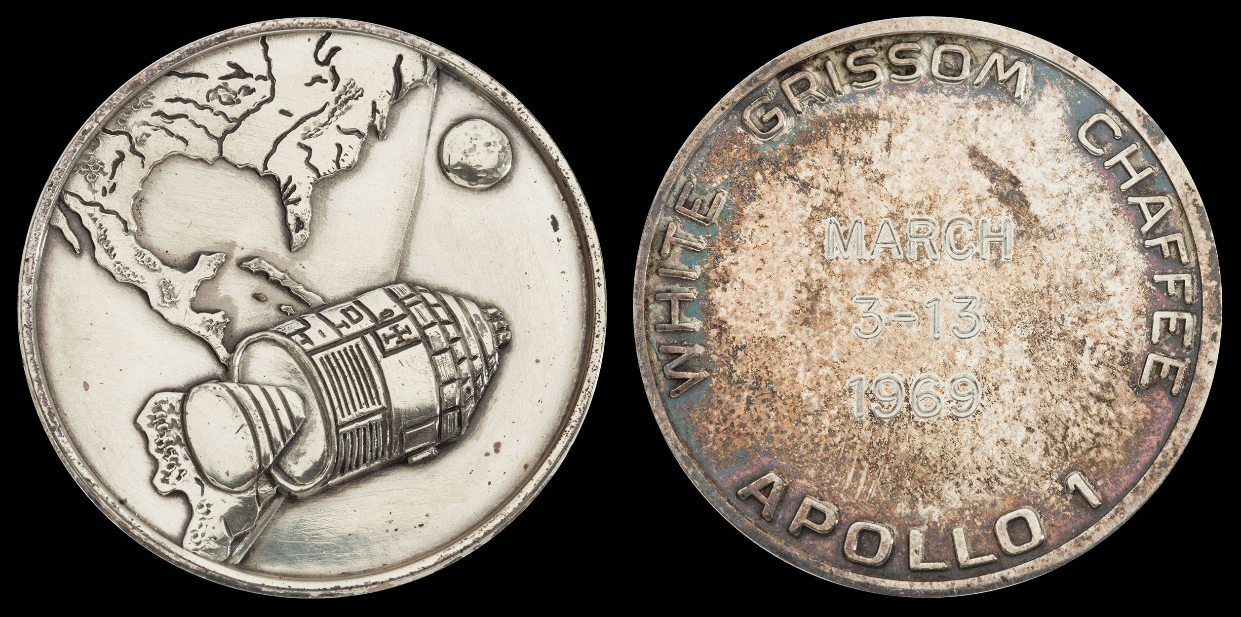 Apollo 1 (S66-36742, 1966) Silver-Colored Fliteline Medallion Flown on Apollo 9 (S69-18569, March 1969) by Jim McDivitt and presented to the family of Edward Higgins White. The engraved date reflects the flight of Apollo 9.(6095-40071)